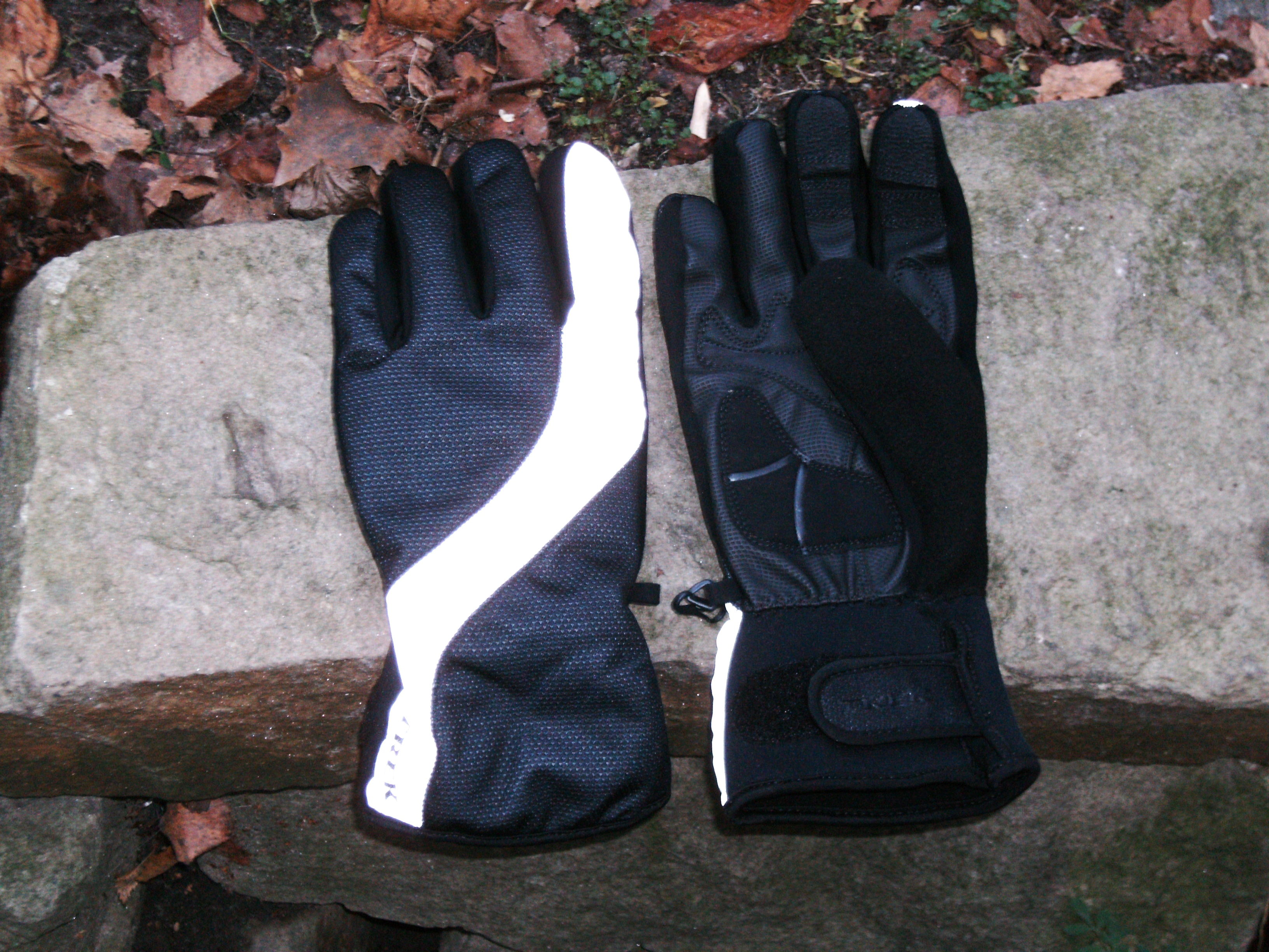 Cycling gloves Trek Heavyweight